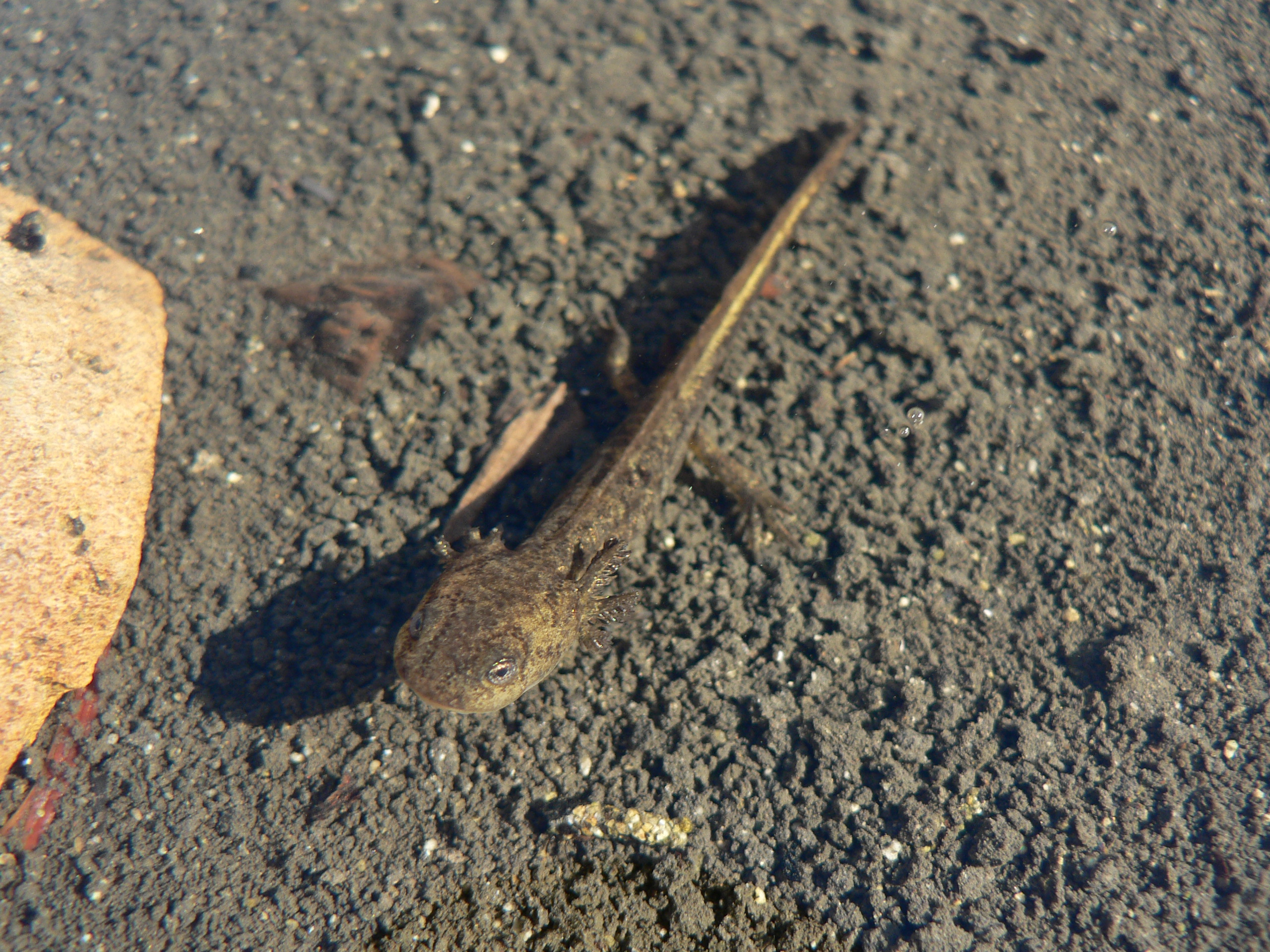 Western Long-toed Salamander larva; this identification was confirmed by User:Thompsma [1]